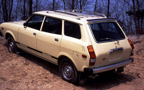 1975 Subaru DL (Leone 4WD Station Wagon)